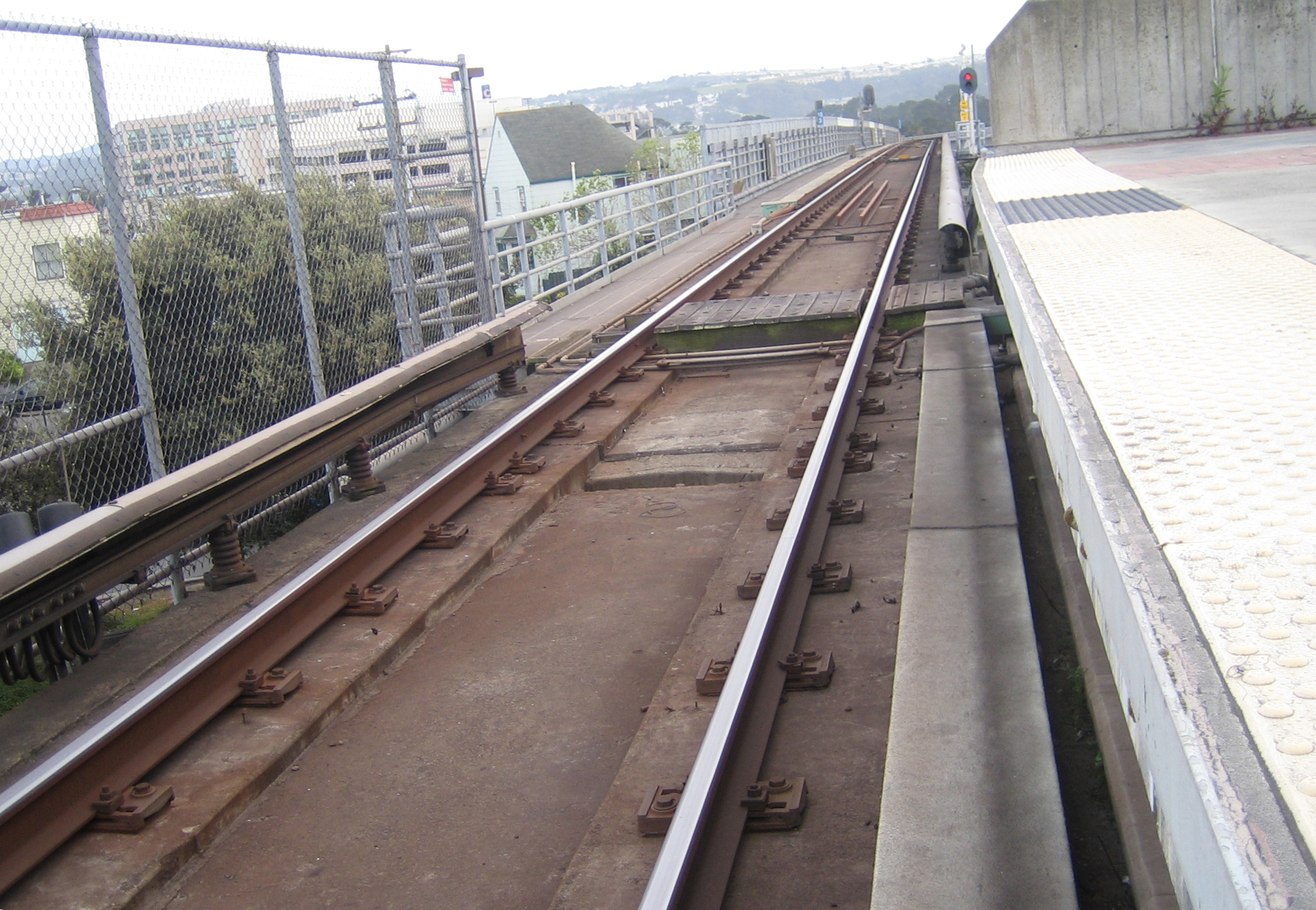 A picture showing the third rails on either side of the track on the BART system (San Francisco, California metropolitan area). Taken on the island platform of the Daly City BART station, showing the eastern-most track (looking south).